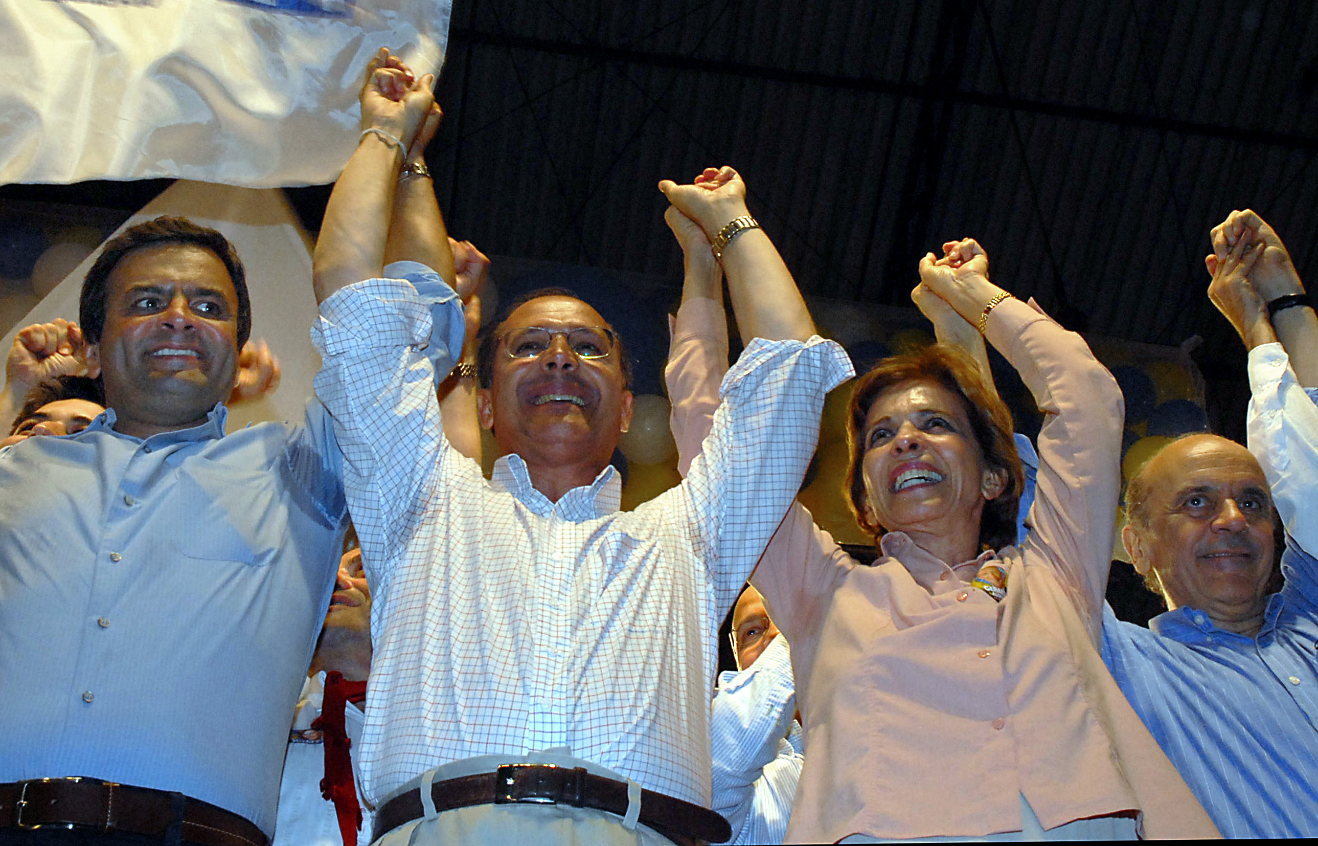 At Porto Alegre, from left to right Aécio Neves, Geraldo Alckmin, Yeda Crusius e José Serra.